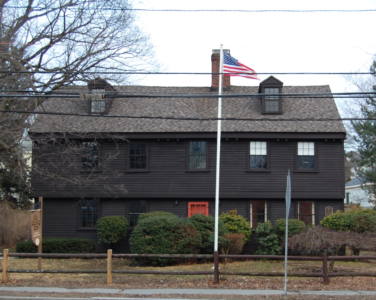 Sir John Humphreys House, historic home at 99 Paradise Road, Swampscott, Massachusetts, est. 1637. Oldest house in Swampscott and owned by the Swampscott Historical Society. It was however moved to its present location in 1891.